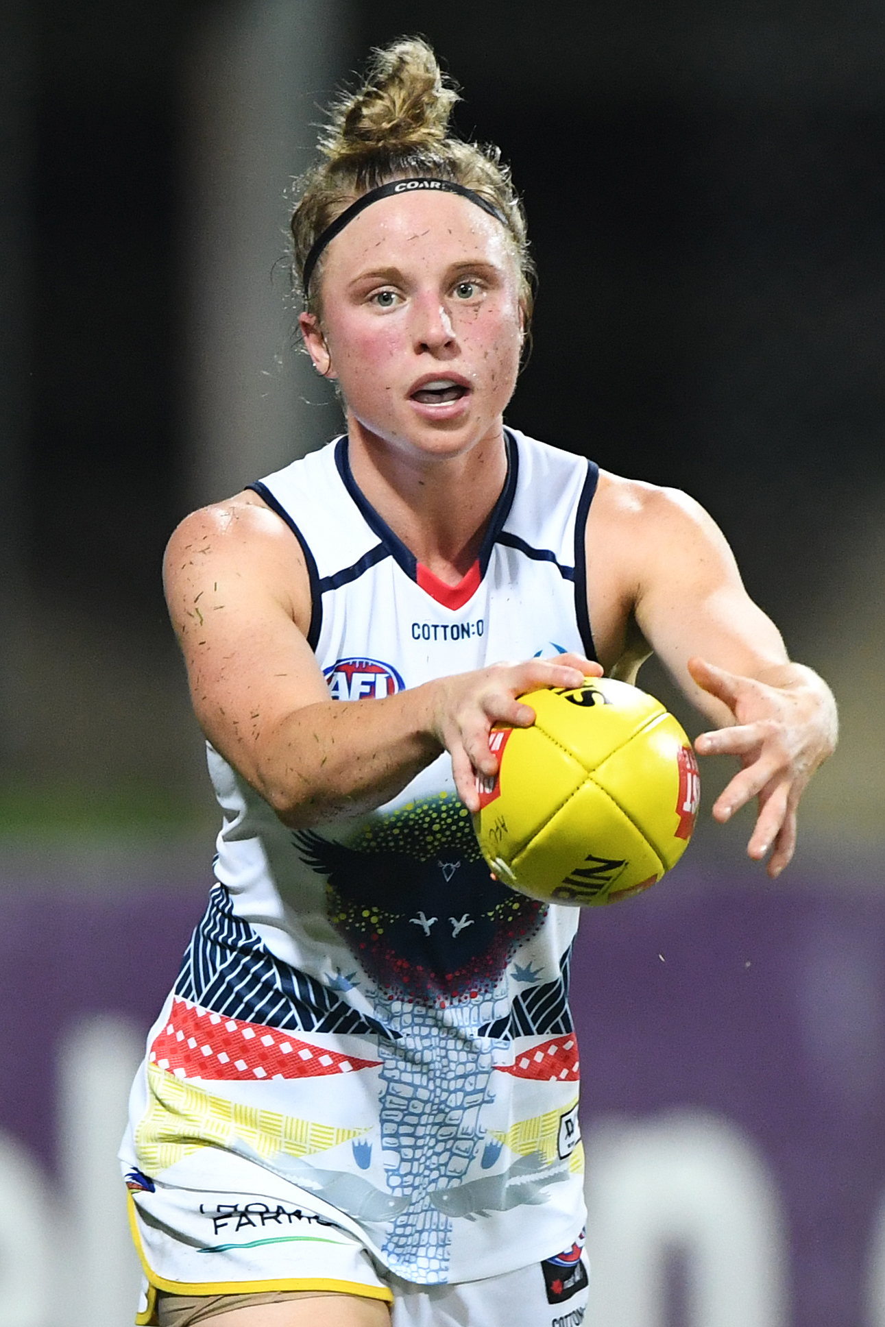 Dayna Cox of Adelaide during the 2019 AFL Women's practice match between the Adelaide Football Club and Fremantle Football Club at TIO Stadium on January 19, 2019 in Darwin Australia.